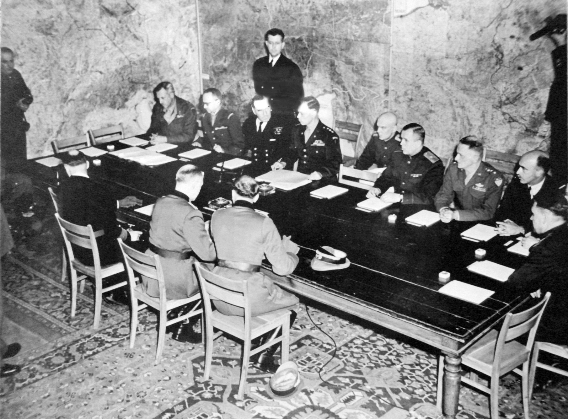 Signature of surrender on 7 May 1945 at Reims, with Major Wilhelm Oxenius, General Alfred Jodl, General Admiral Hans-Georg von Friedeburg (all three German officers seen from behind from right to left). At the back, from left to right, Sir F E Morgan, François Sevez, Harold Burrough, Harry C. Butcher, Walter Bedell Smith, Ivan Cherniaev, Ivan Sousloparov, Carl Spaatz, Henri Bull (facing up the table), John Robb, Ivan Zenkov (according the original caption, facing away, left to right). K W D Strong is standing on the left, behind the German officials, and we can only see of him a short part of his jacket.